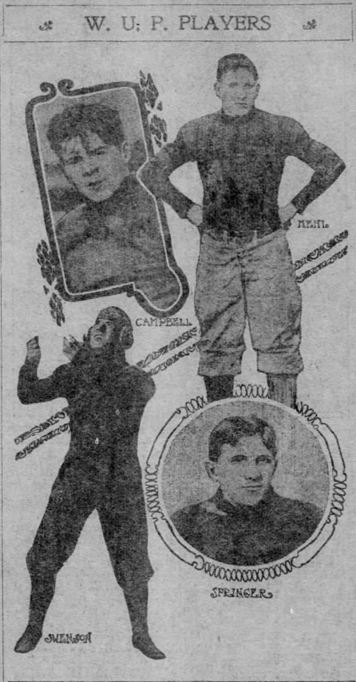 Screenshot 2020-07-21 3 Nov 1907, Page 17 - Pittsburgh Post-Gazette at Newspapers com Western University of Pennsylvania football players